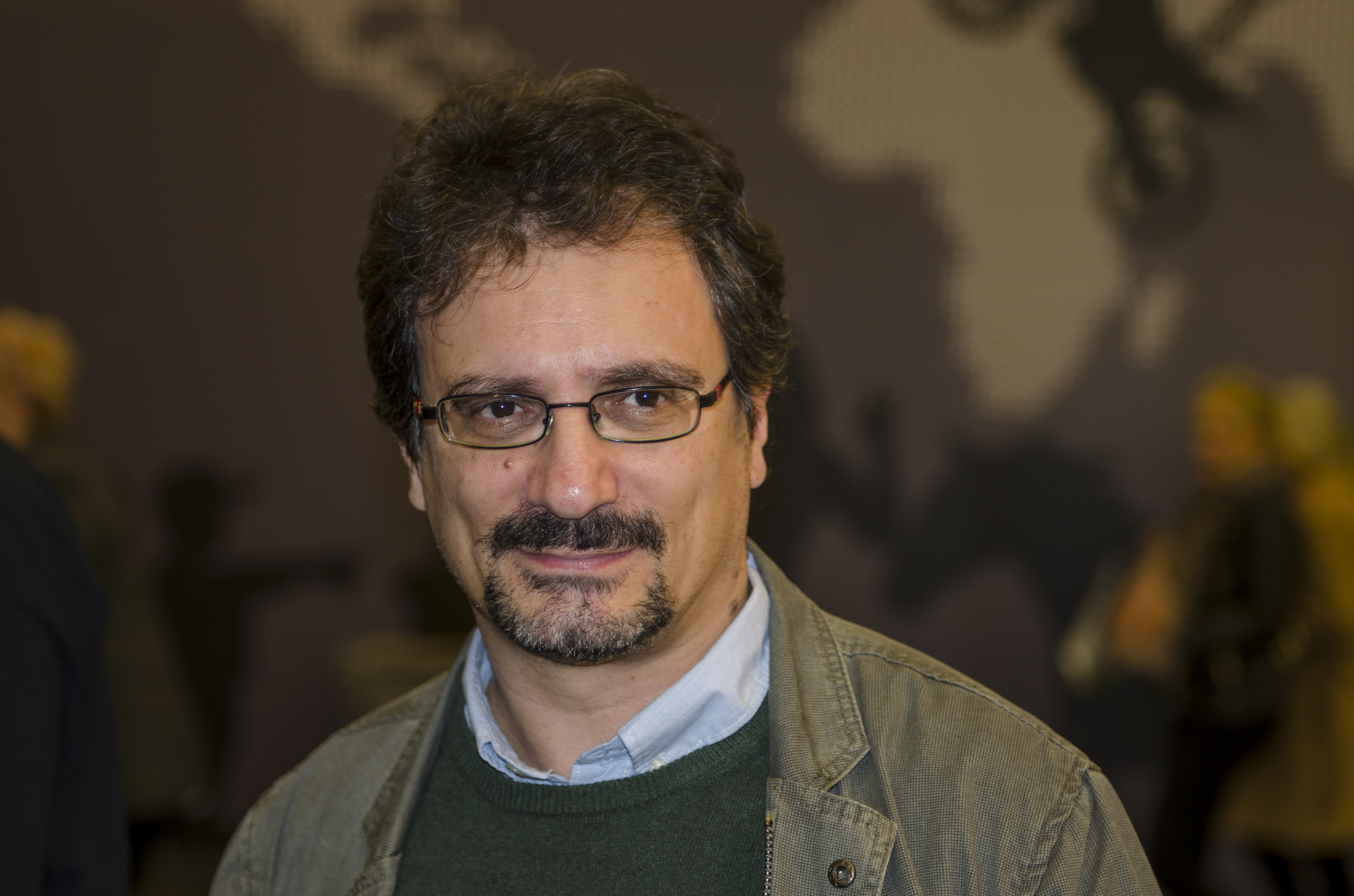 Albert Sánchez Piñol at the Gothenburg Book Fair 2014.